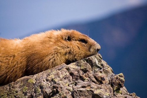 This is a picture of the Olympic marmot sunbathing at Hurricane Ridge on the Olympic Peninsula in Washington State, taken on July 27, 2009.